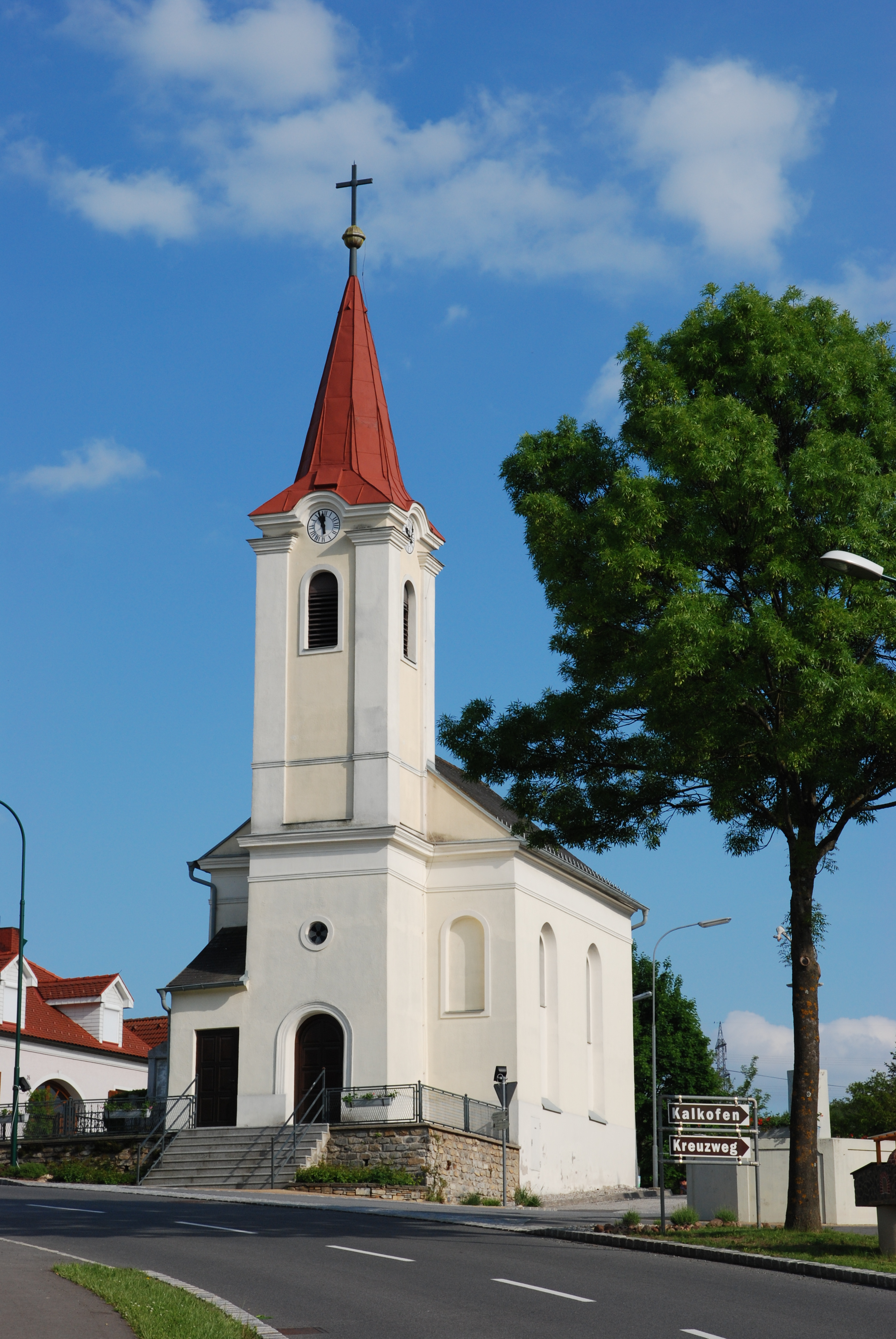 Kirche Unterkohlstätten